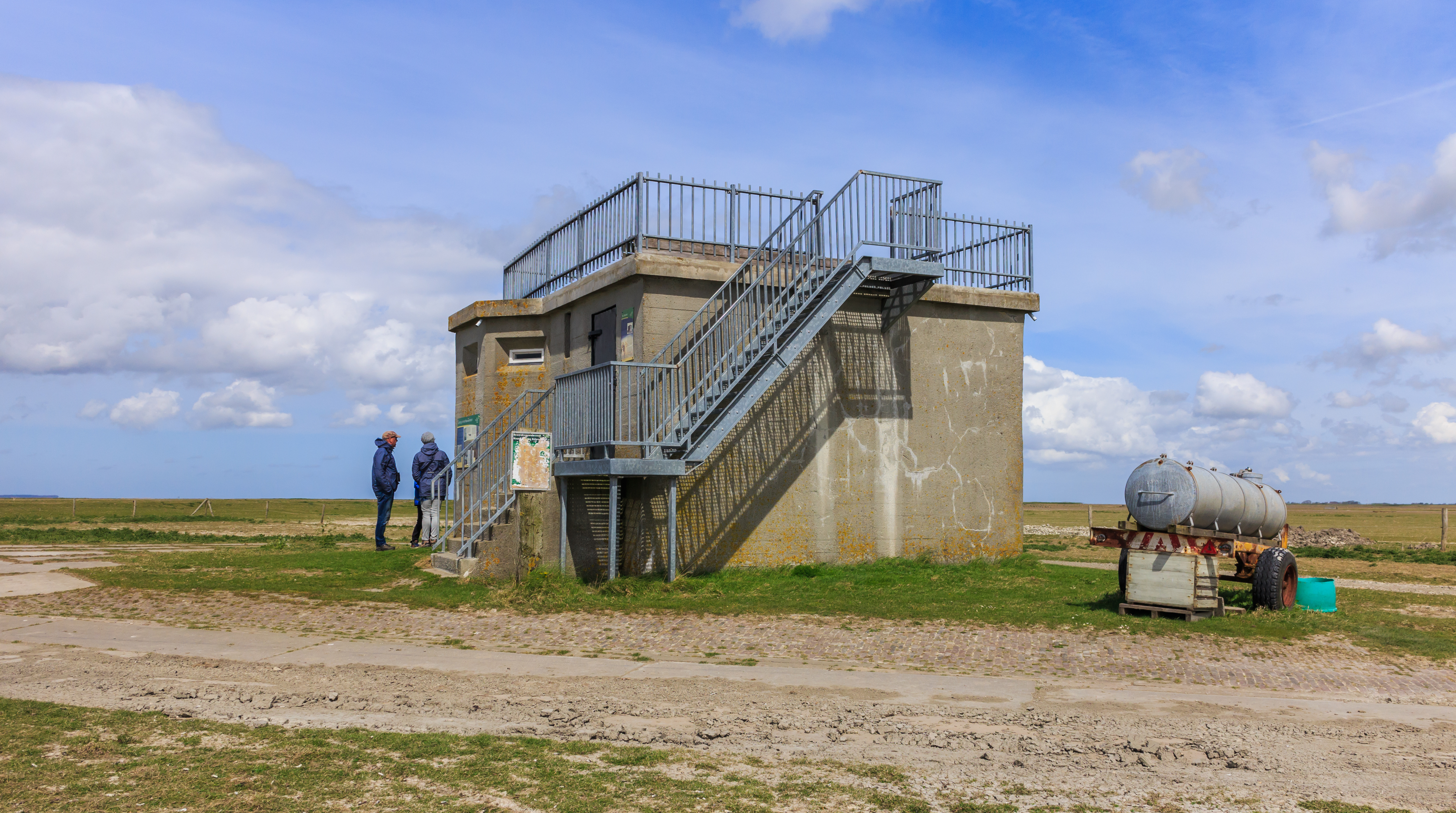 Former bunker, now viewpoint. Location, Noarderleech.